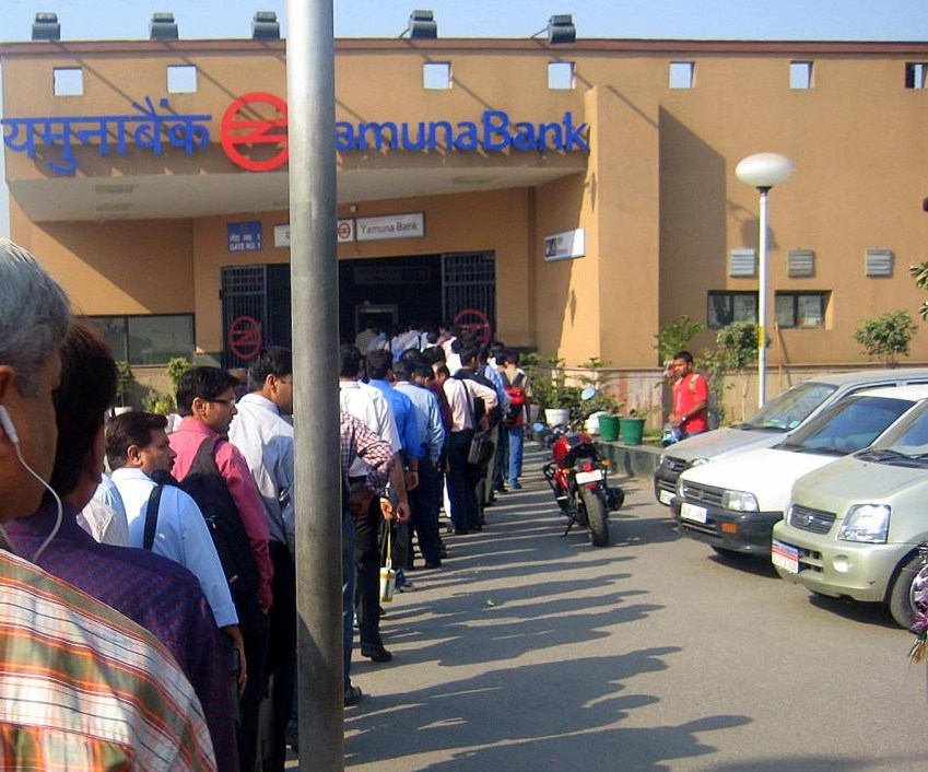 A long line of commuters at the Yamuna Bank station of the Delhi Metro waiting for Security Check.